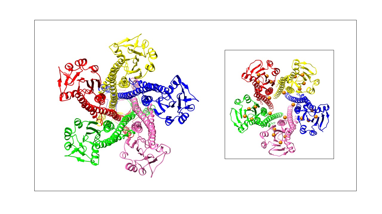 Zinc Transporter Protein (ZntB) Protein Structure Comparison